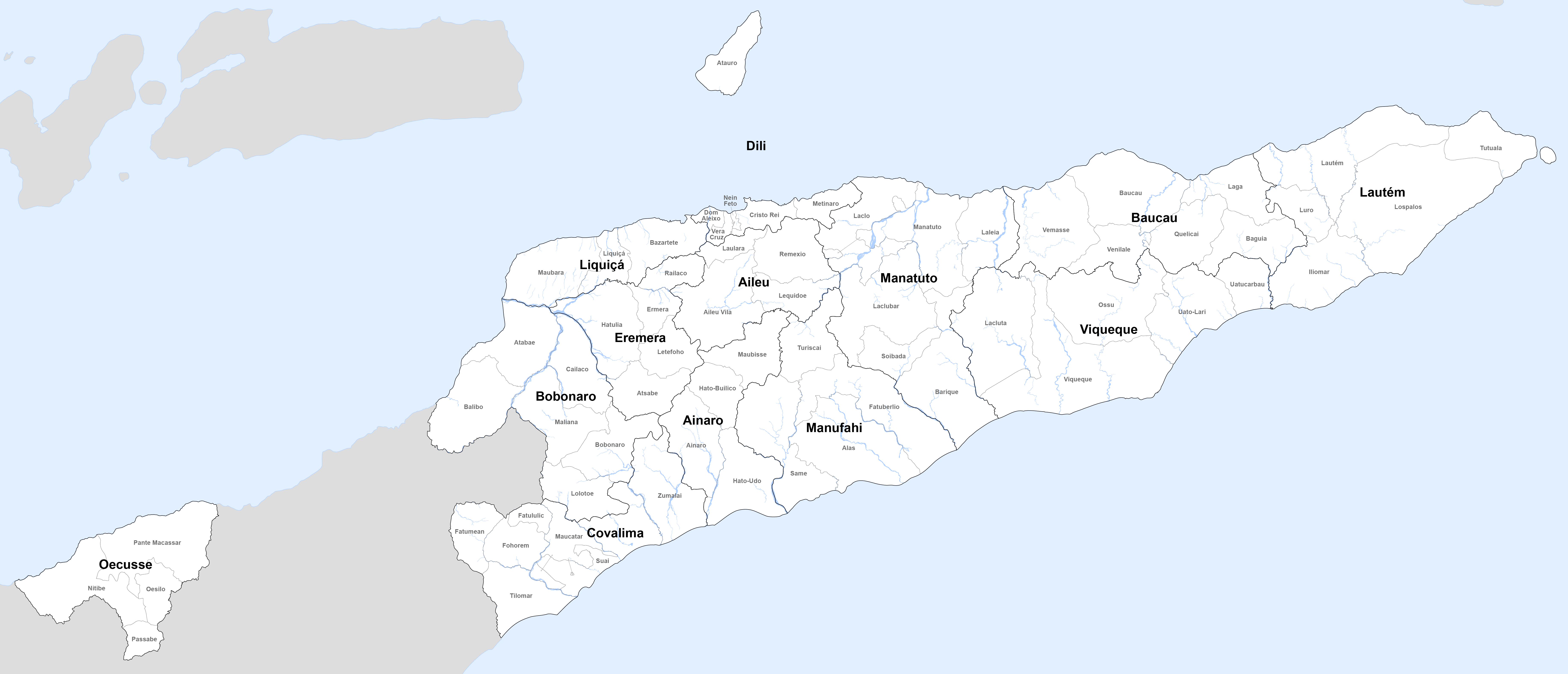 Map of East Timor with the new administrative borders since 2015